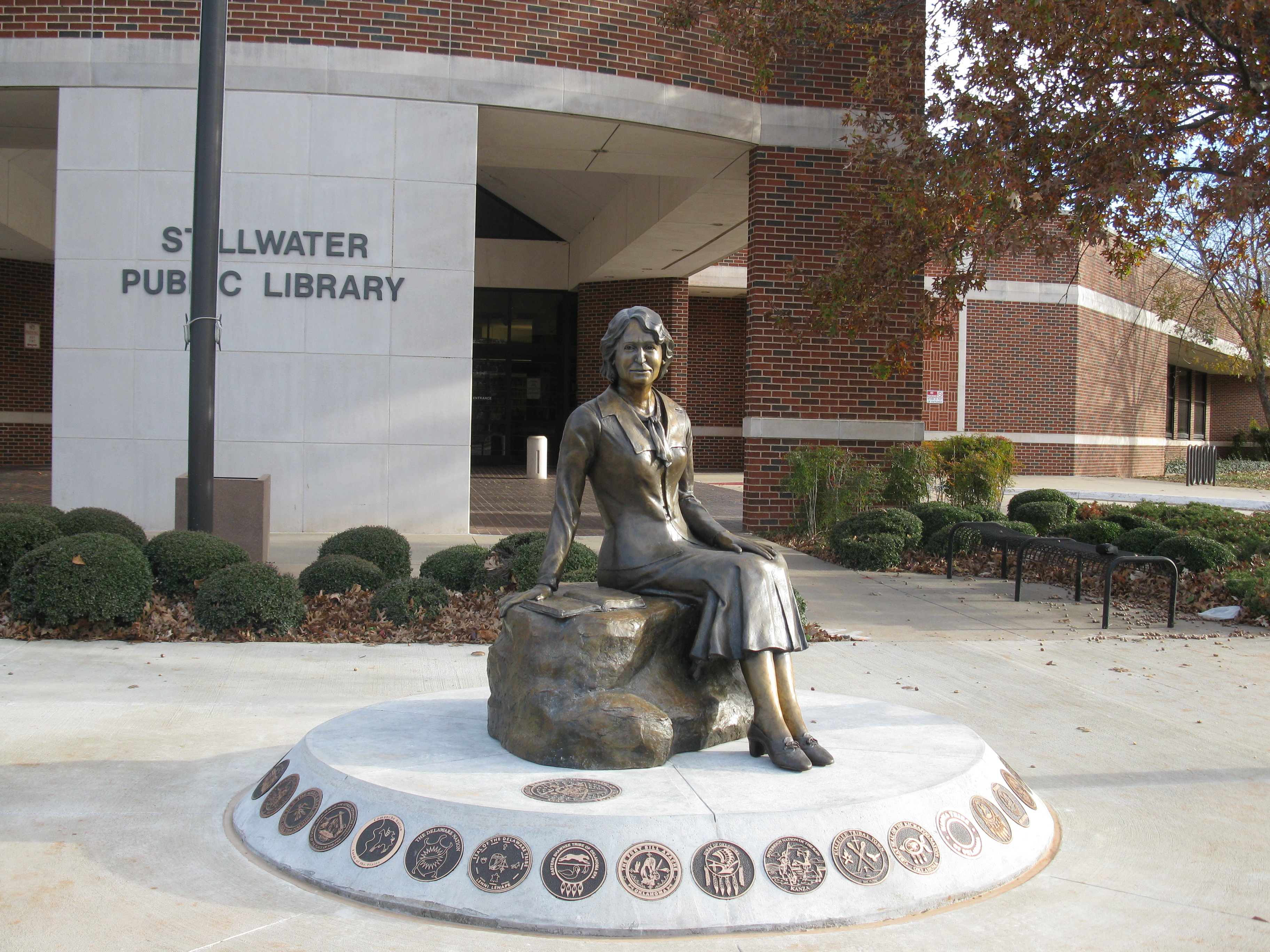 The Angie Debo statue at Stillwater Public Library, Stillwater, OK, was sculpted by Phyllis Mantik and installed in Nov. 2010.